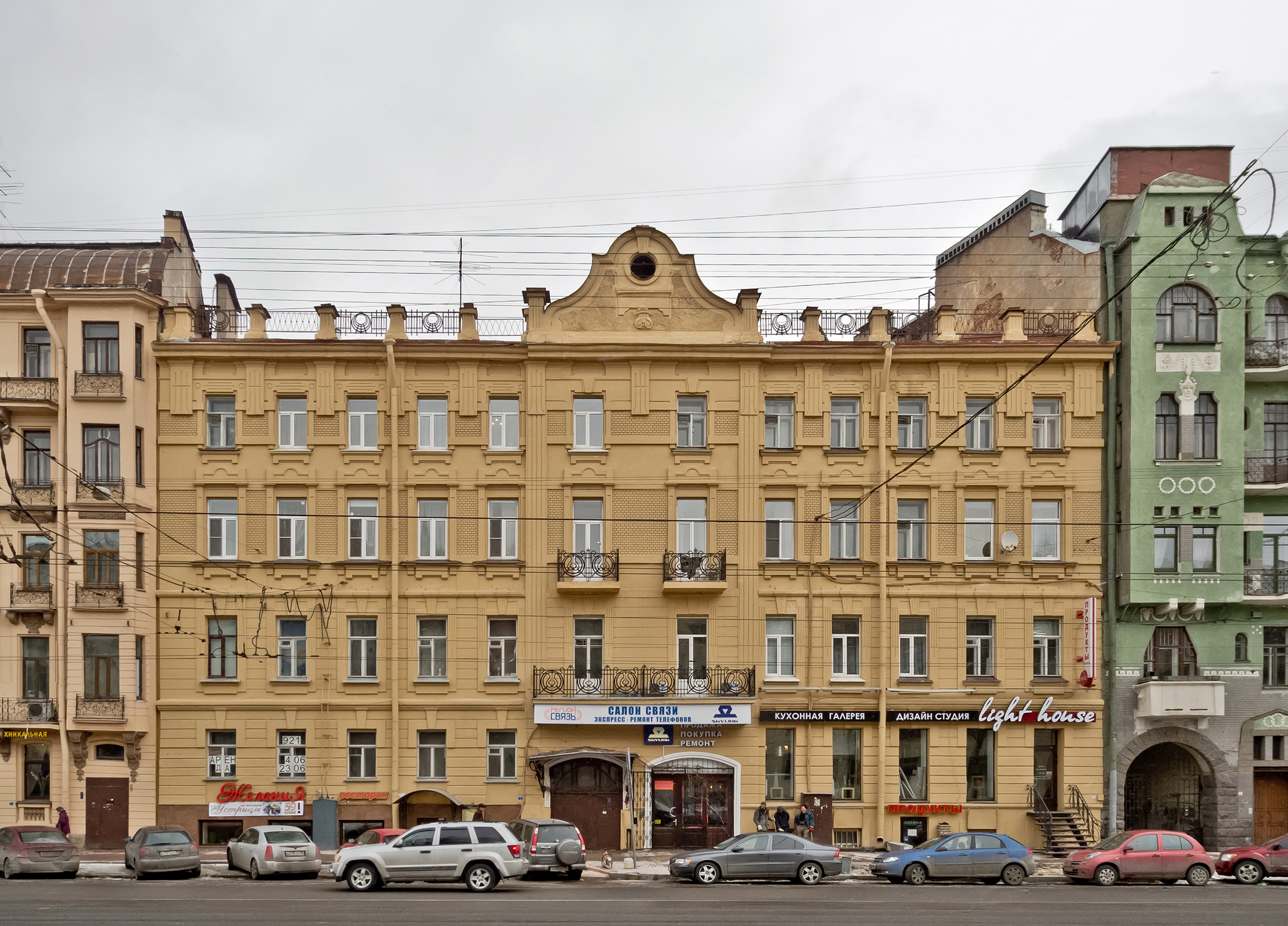 23, Dobroljubova avenue, Saint Petersburg. Pek's rent house.